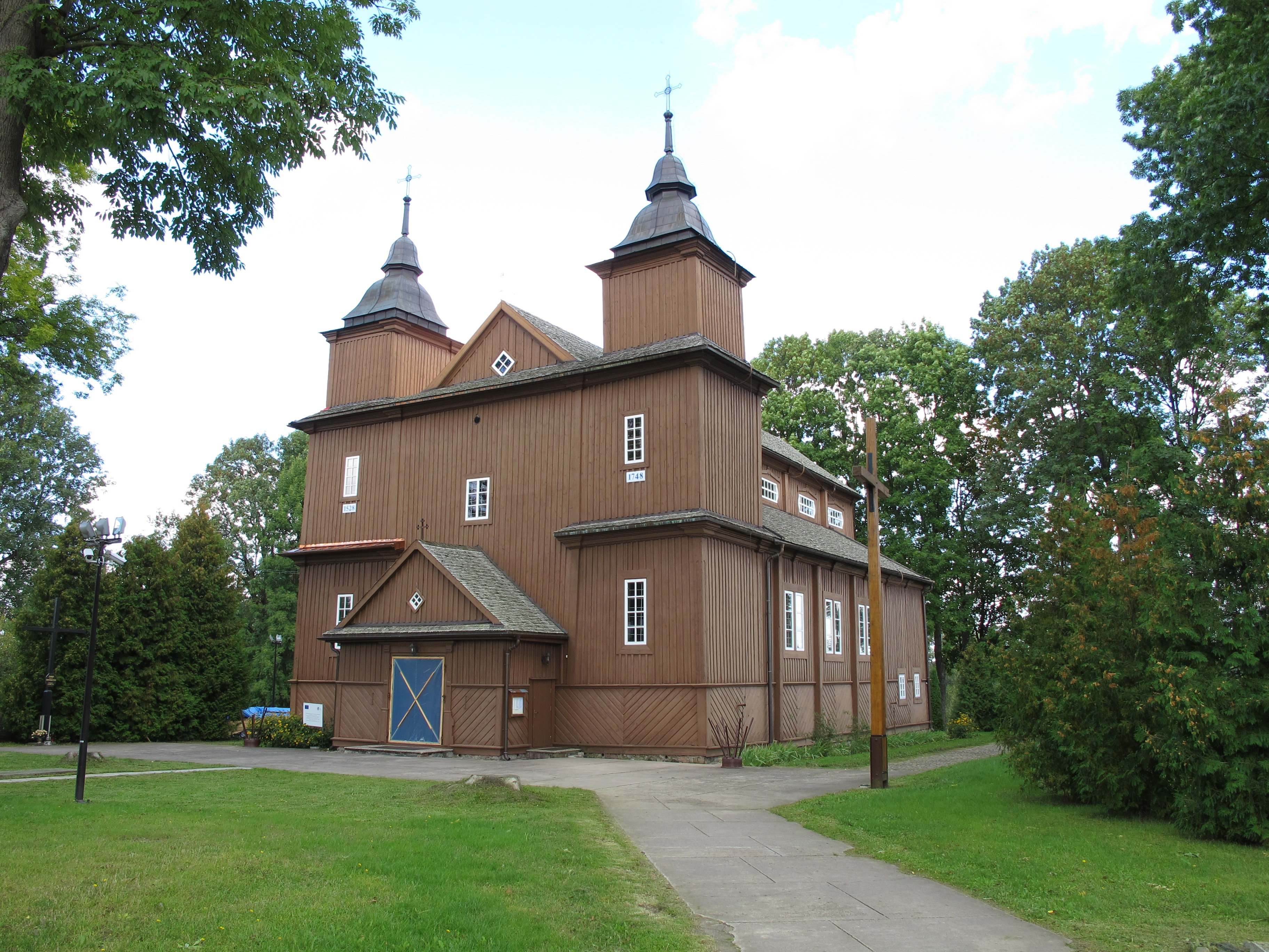 Roman catholic churchuch of Assumption of Mary and Saint Stanislaus of Szczepanów, Kościelna 1 st. Narew, gmina Narew, podlaskie, Poland